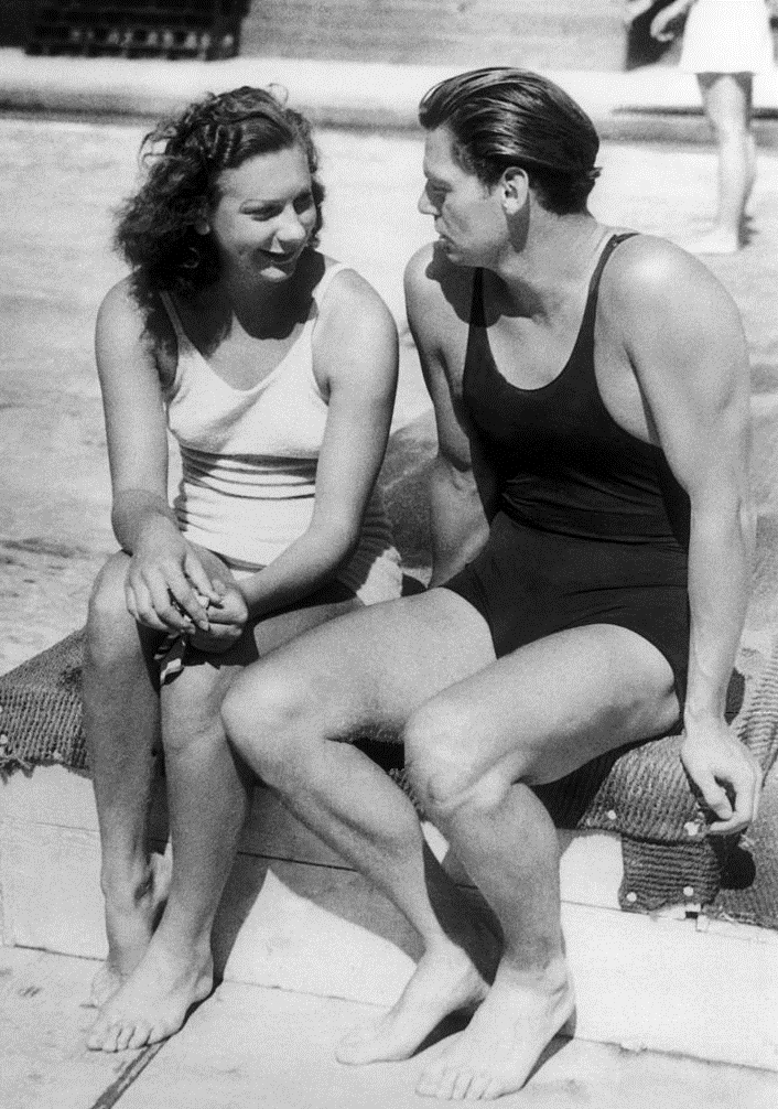 On July 27, 1932, at the Olympic Summer Games in Los Angeles (U.S.A) the swimmers Helene MADISON and Johnny WEISSMULLER talking during swimming practice. Johnny WEISSMULLER then held many swimming records with a total of five gold medals in swimming events from the Olympic Games of 1924 and 1928. Helene MADISON, then aged 19, won three gold medals during these Games: in the 100m freestyle event, the 400m freestyle and the 400m freestyle relay.